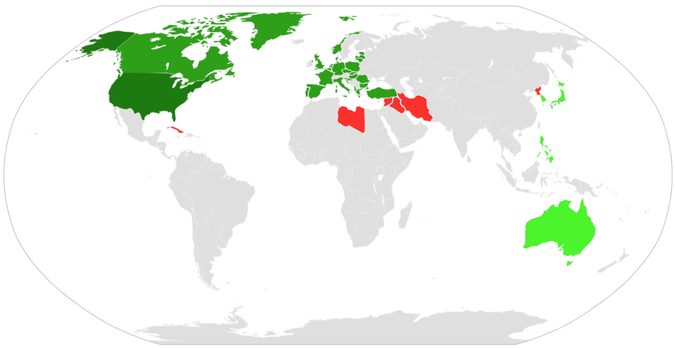 Dark Green is U.S.A., Green is the NATO Allies, Bright green is other U.S. allies, Red is the "Evil Axis"(enemy of U.S.A.)